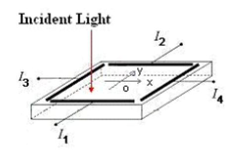 This is a schematic of an optical device: 2-D position sensitive device. This device is capable of estimating the position of incident light.